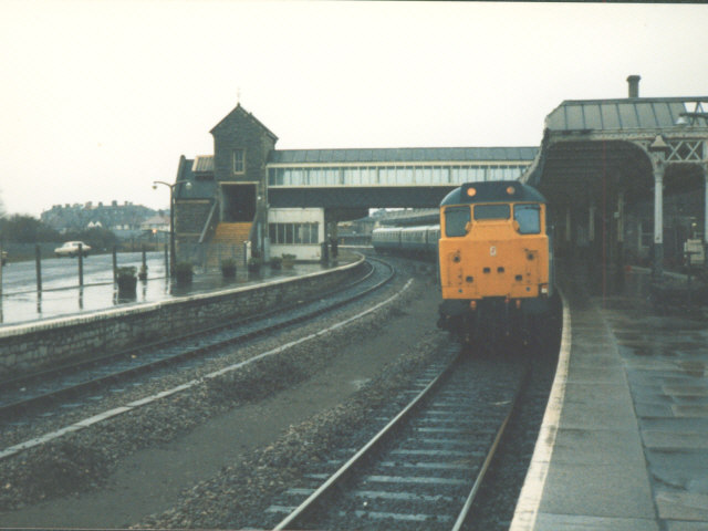 Weston-super-Mare railway station. A local train to Bristol waits to depart from Weston-super-Mare.